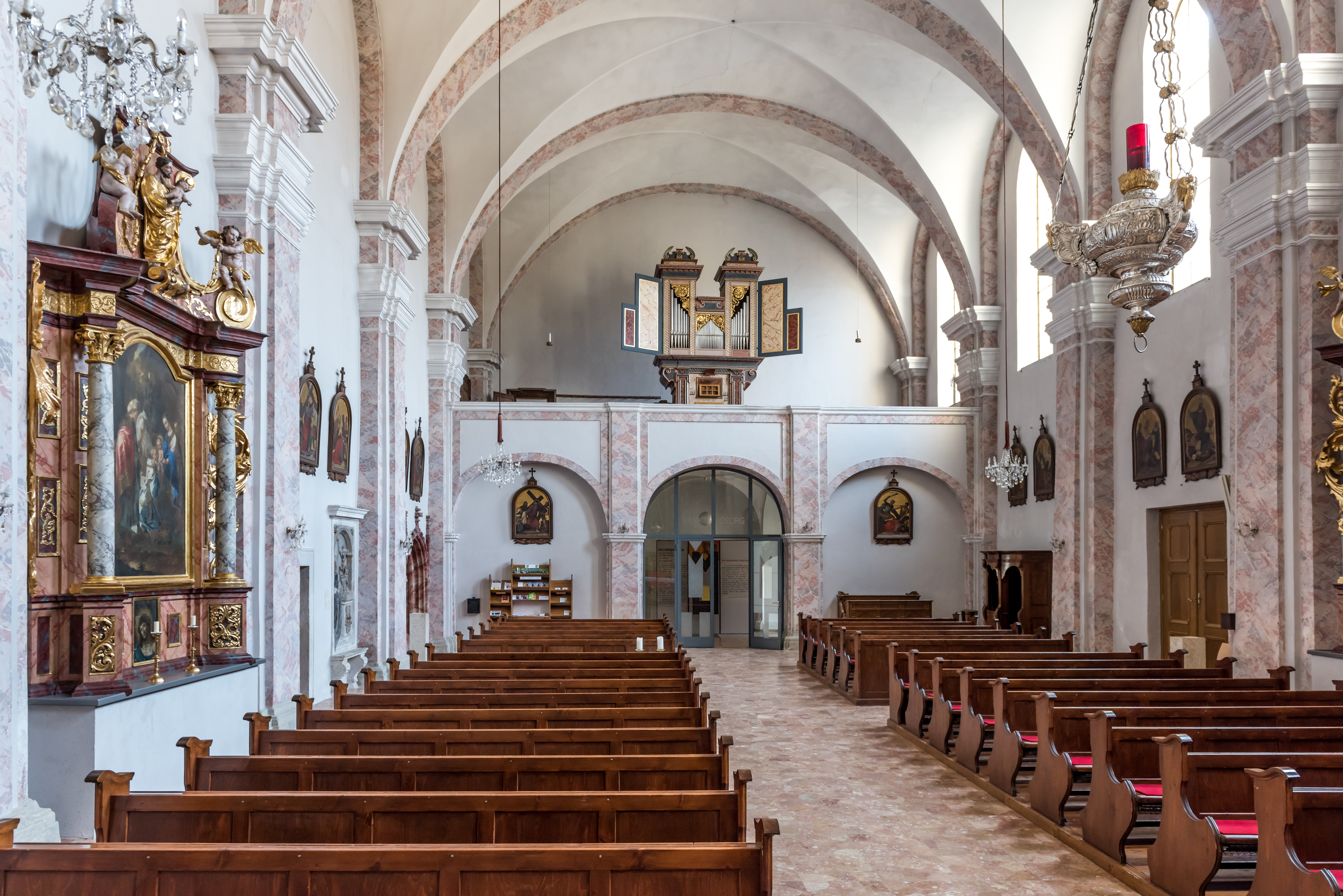 View of the church gallery with pipe organ at the monastery church Saint George on Schlossallee #2, municipality Sankt Georgen a. L., district Sankt Veit, Carinthia, Austria, EU